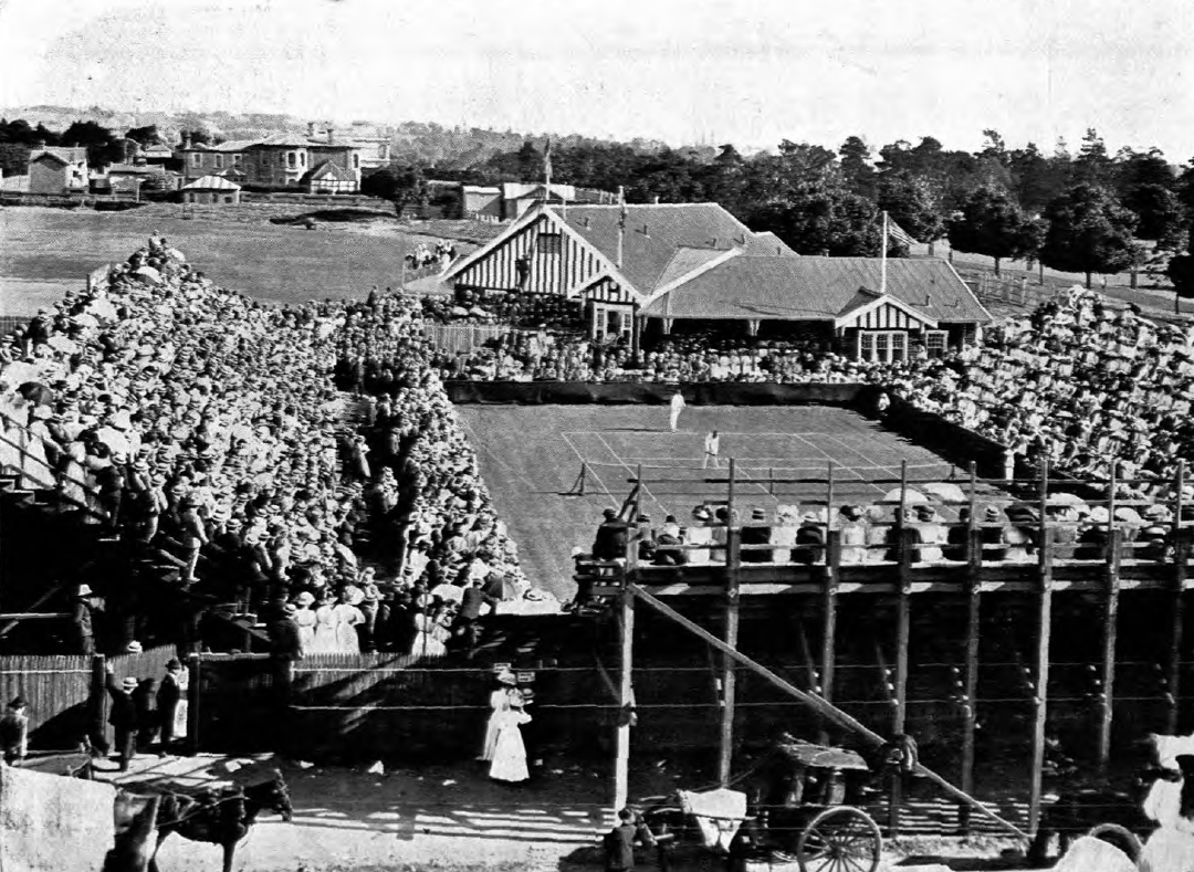 1908 Davis Cup tennis competition